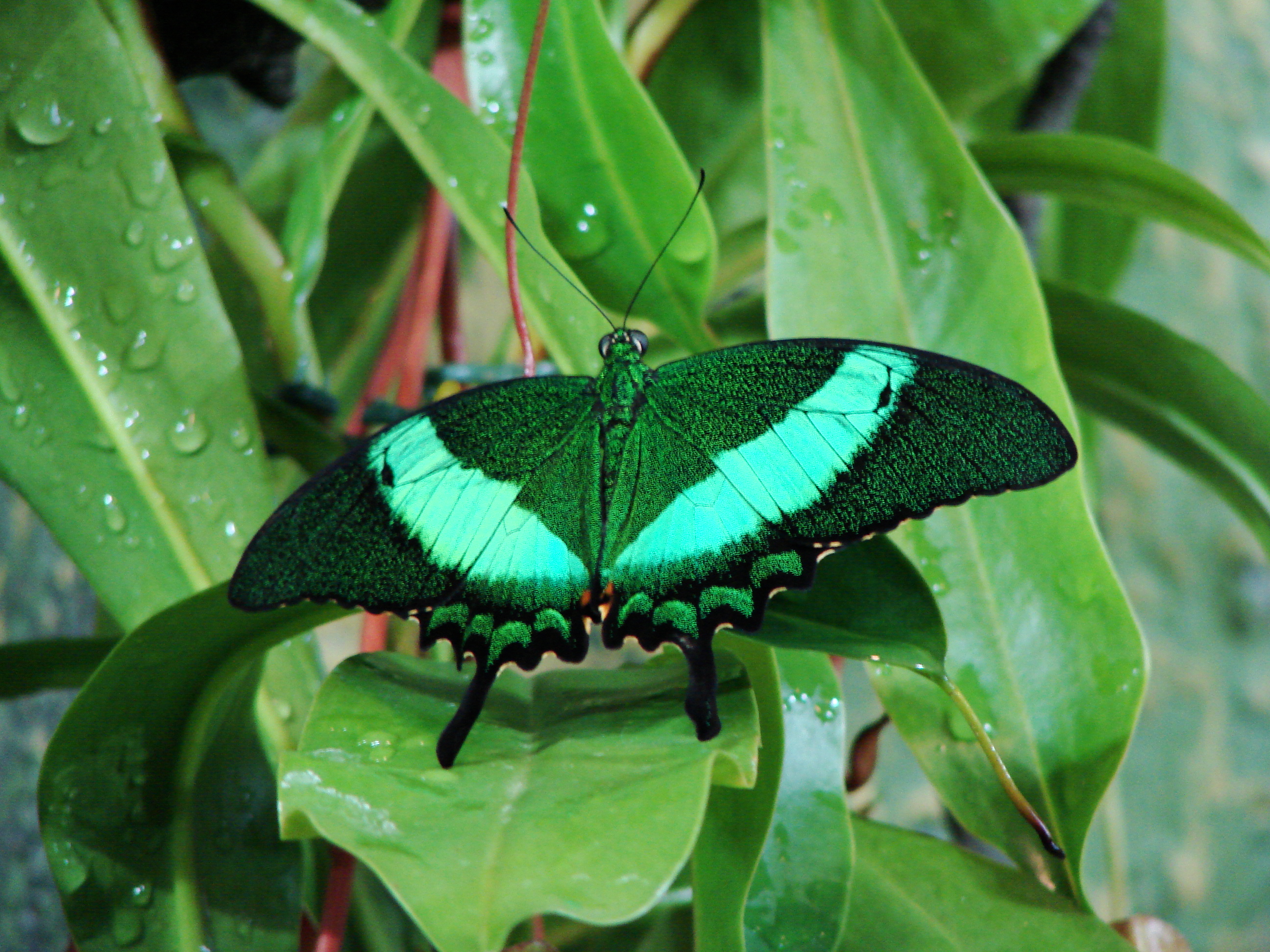 Picture taken in the zoo of Wrocław (Poland). Said to be Papilio phorcas, though I have been told this is actually an Indian swallowtail, perhaps Papilio palinurus?